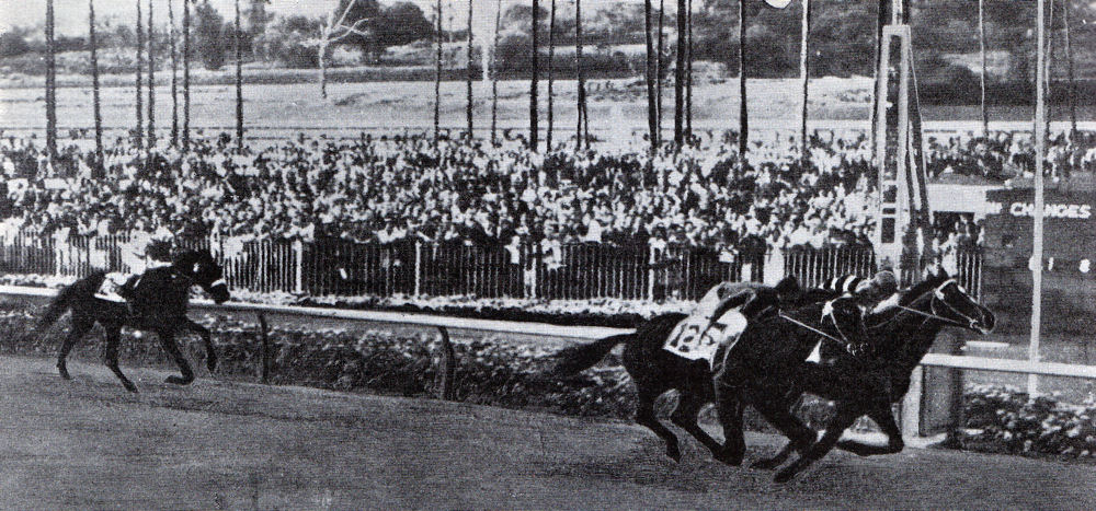 Washington Birthday Handicap in 1959